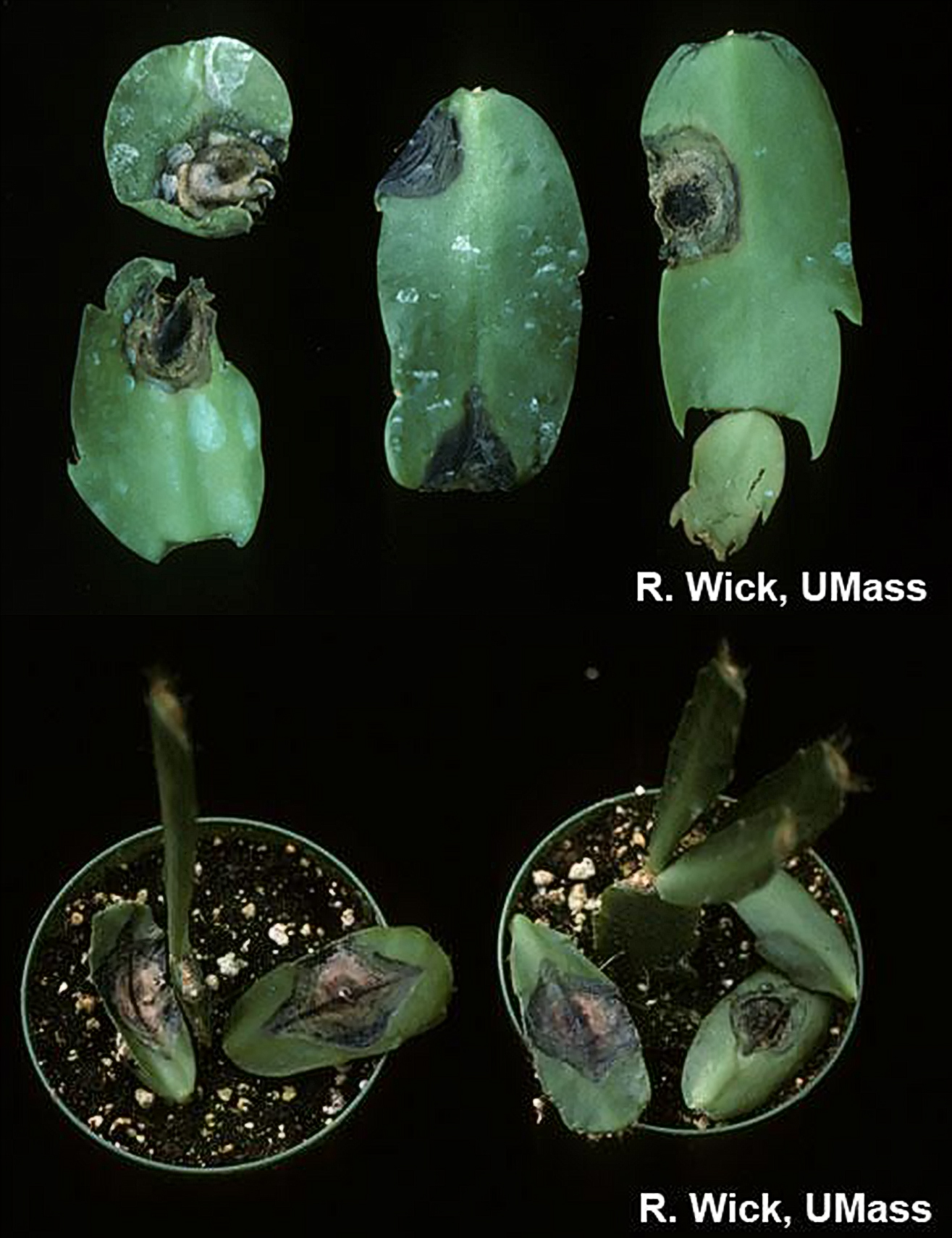 Schlumbergera - Drechslera Leaf Spot and Stem Rot